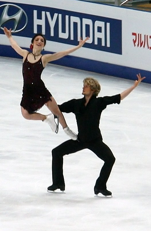 Meryl Davis and Charlie White at the 2011 World Figure Skating Championships